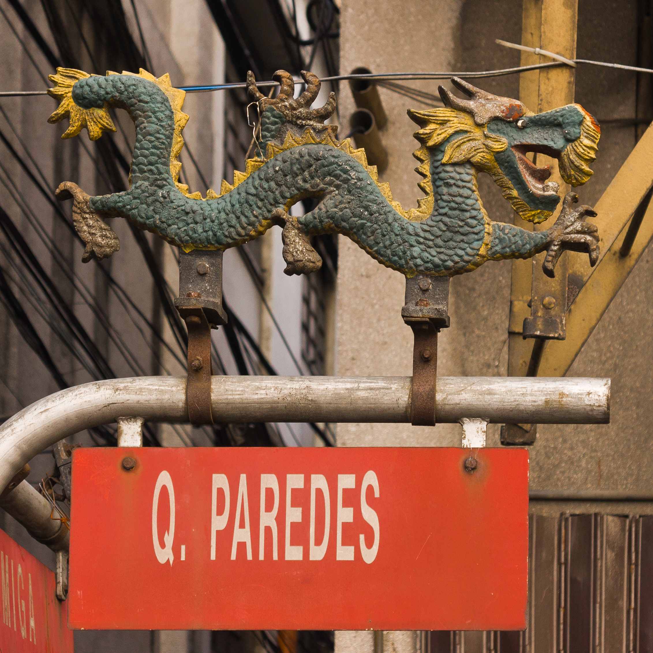 Manila, Philippines: A shop sign in Chinatown